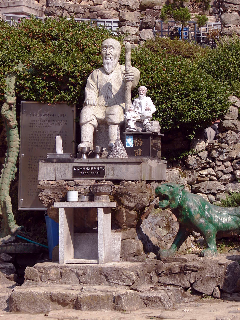 Tapsa (Buddhist Temple) and the Stone Pagodas of Maisan (Hourse Ear Mountain) in Jinan County, North Jeolla Province, South Korea. Statue of Yi Gap Yong, the Buddhist layman, who single handed constructed the 80 stone pagoda all without mortar.